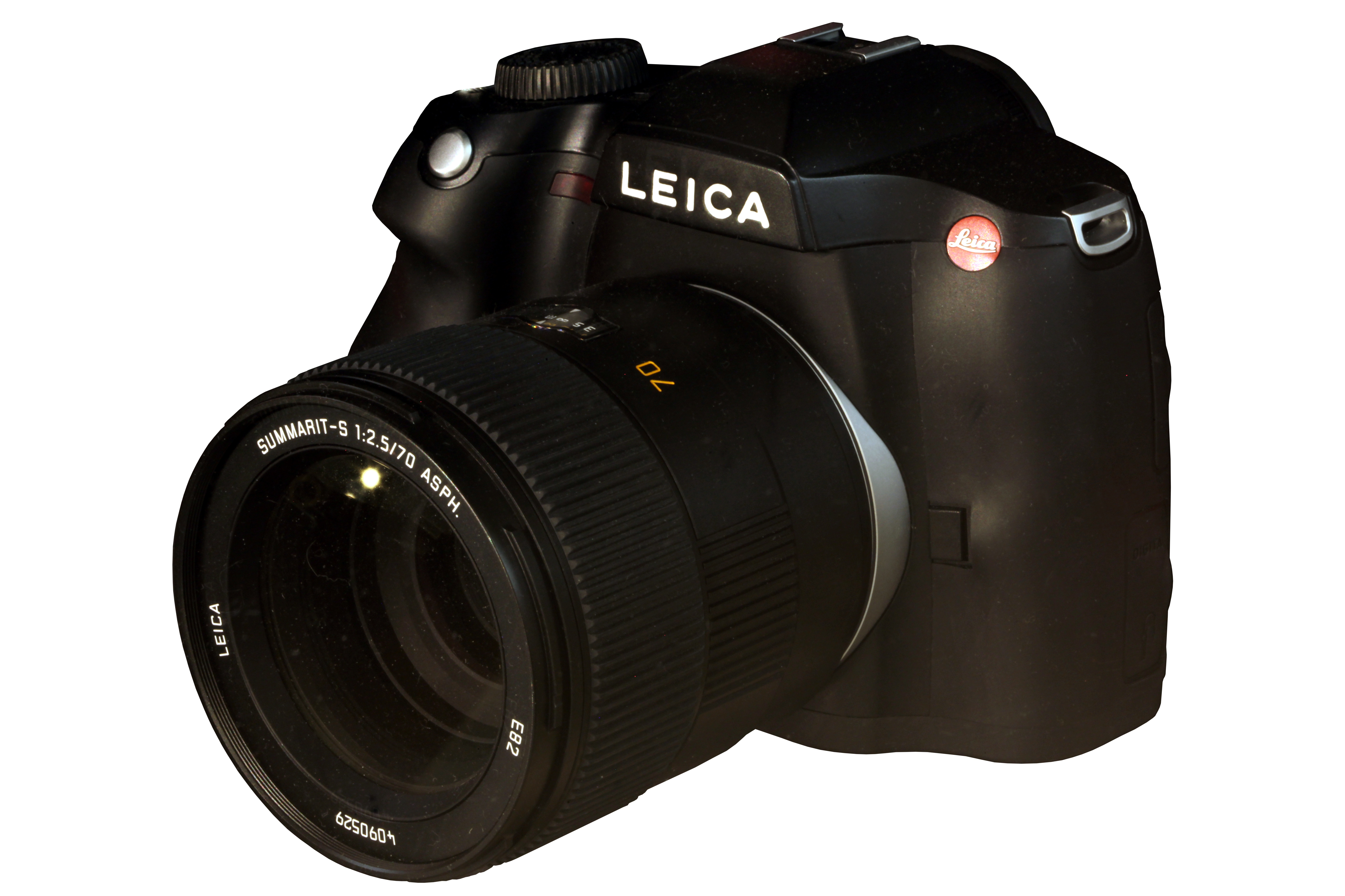 Leica S2. On display at Vevey photography museum.